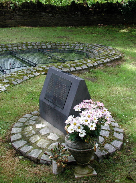 The Flixborough Disaster Memorial to those who died as a result of an explosion at the Nypro chemical works in Flixborough on Saturday, 1st June 1974, which killed 28 people and seriously injured 36. The massive fuel-air explosion completely destroyed the plant and it is thought that had it happened on a weekday more than 500 employees would almost certainly have been killed. The factory was rebuilt much to the dismay of local residents but closed a few years later due to falling nylon prices and was demolished in 1981. The memorial, a bronze casting of mallards in flight, was placed in front of the offices at the rebuilt site in 1977. It was moved to its current location in the churchyard at All Saints' when the factory closed. In 1984 the sculpture was stolen and has never been recovered, although the plinth bearing the names of those who died still stands outside the church in Flixborough.